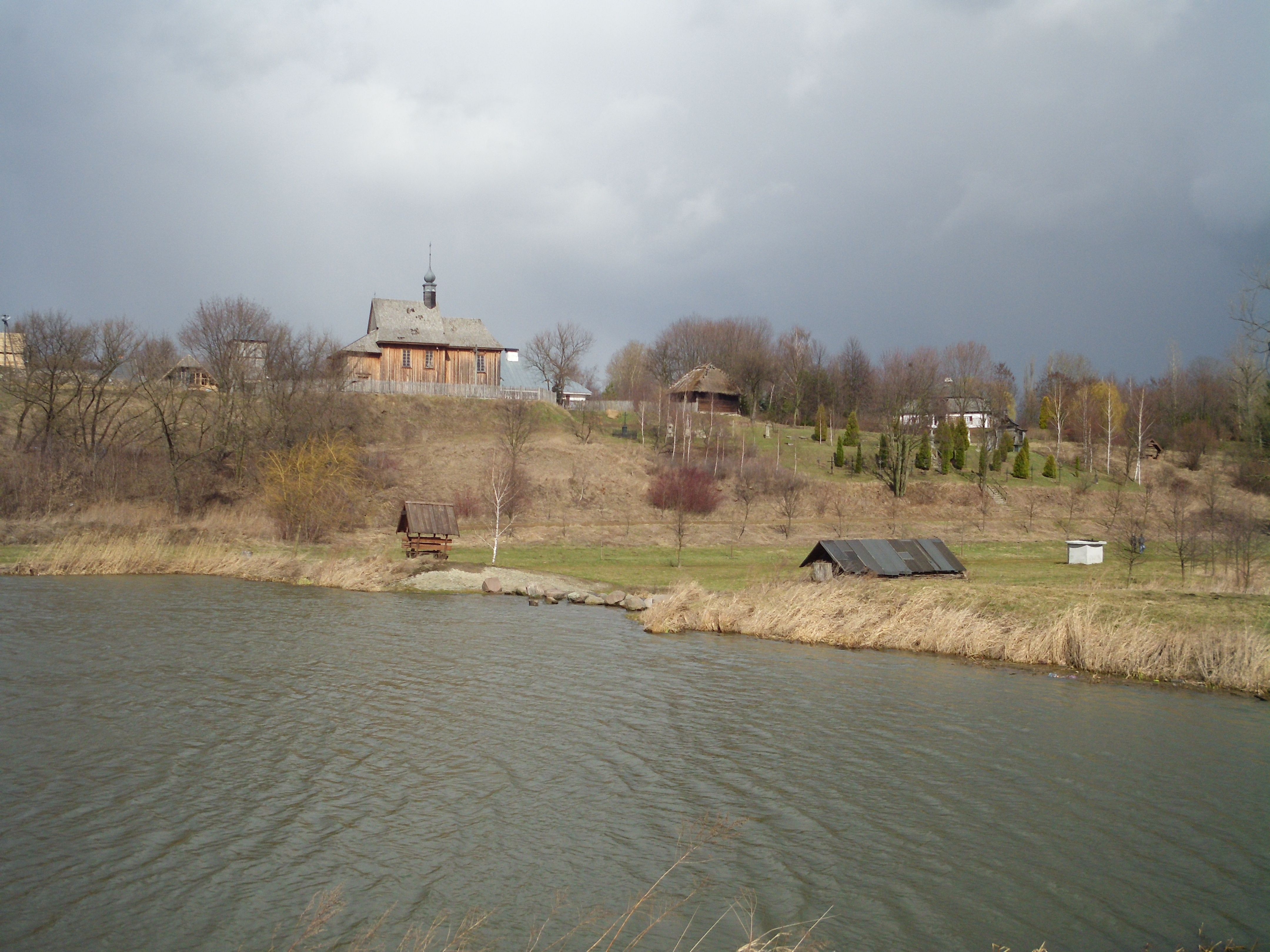 Church, lake and several residential buildings on display in Muzeum Wsi Lubelskiej w Lublinie (an open air museum of Lublin area village architecture), Lublin, Poland